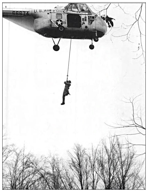 Dr. W. Wilcox a physician from nearby Montoursville is lowered to the crash scene